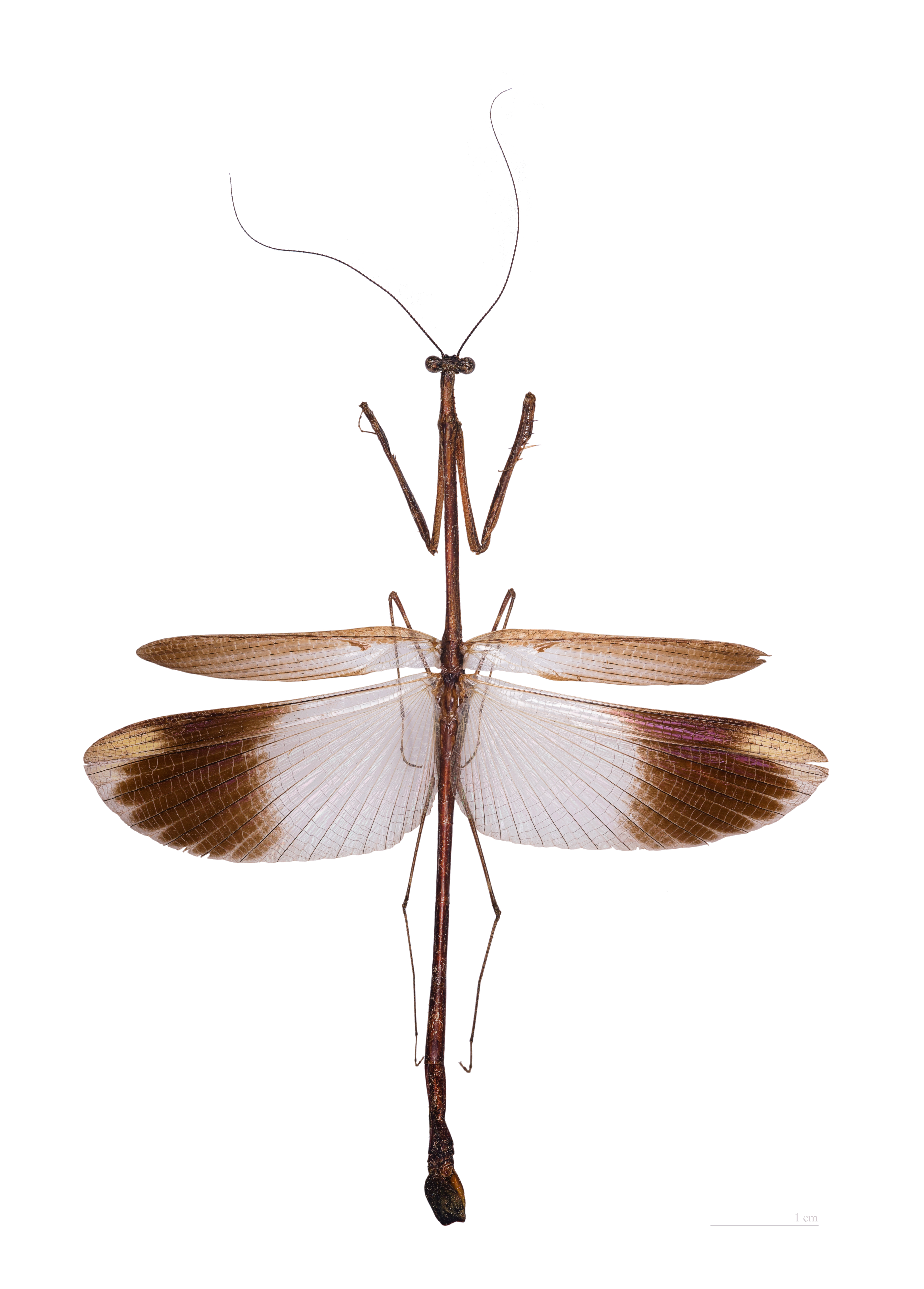 ♂ - Flight position Locality : Route de Kaw, Carbet Orstom, French Guiana.